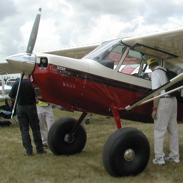 An American Champion (formerly Bellanca) Scout outfitted for backcountry operations.